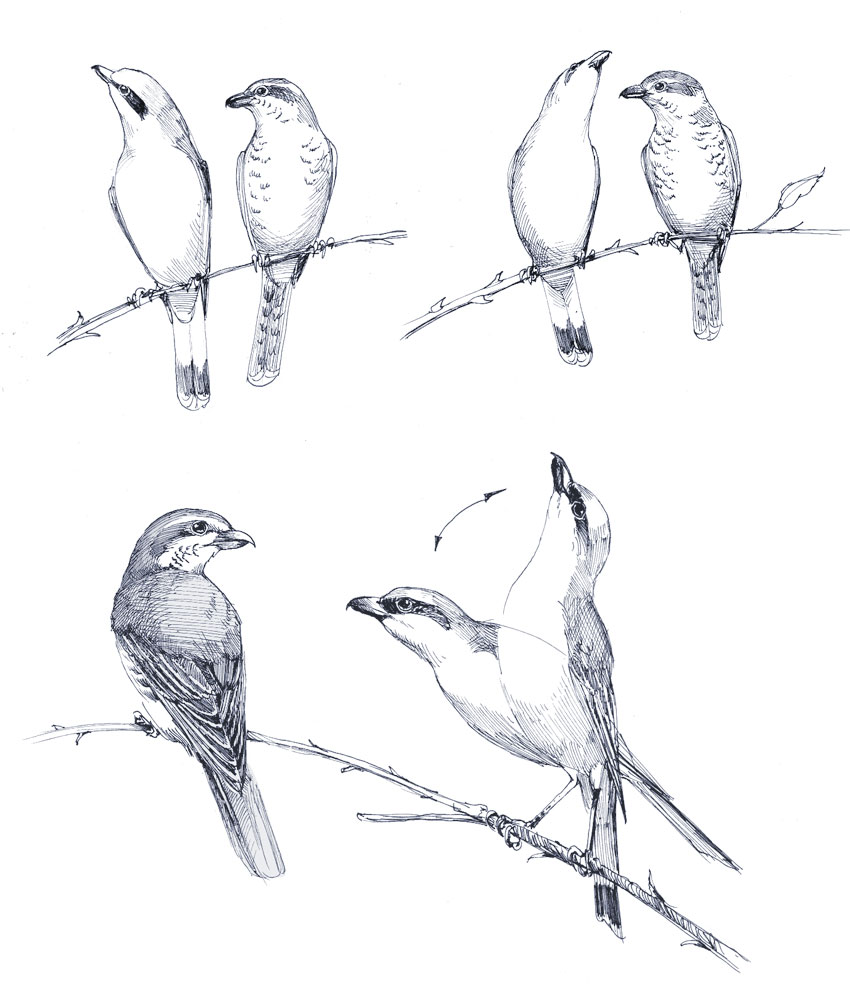 Several stages of the courtship behaviour of the red-backed shrike (Lanius collurio)